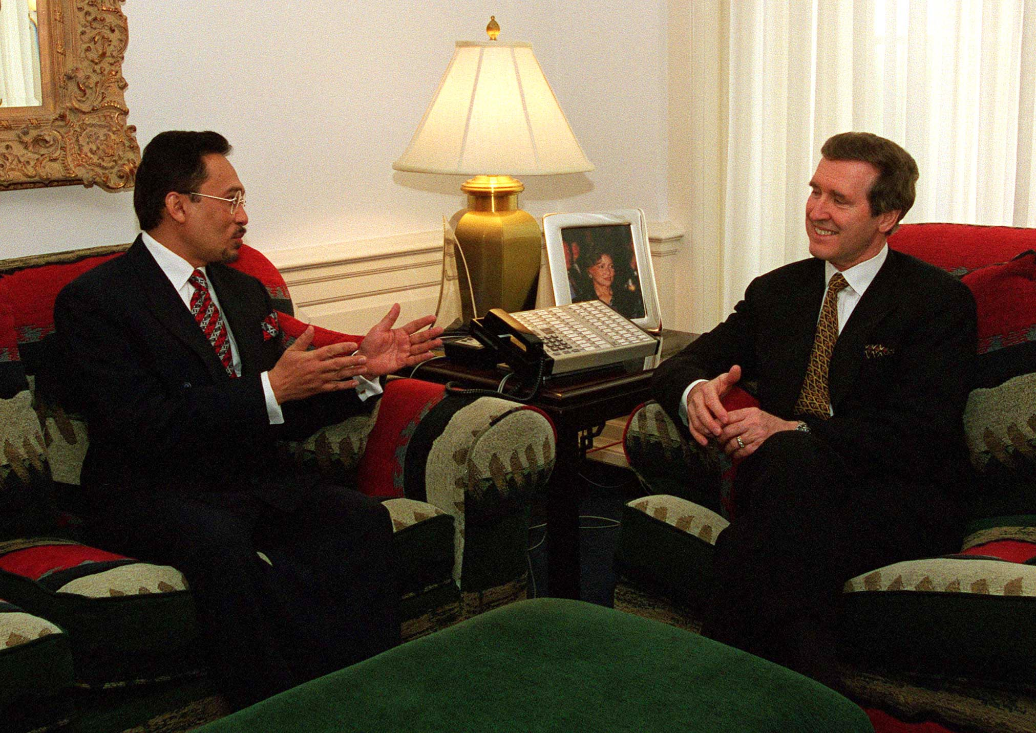 U.S. Secretary of Defense William S. Cohen (right) meets with Malaysian Deputy Prime Minister Anwar bin Ibrahim (left) in his Pentagon office.